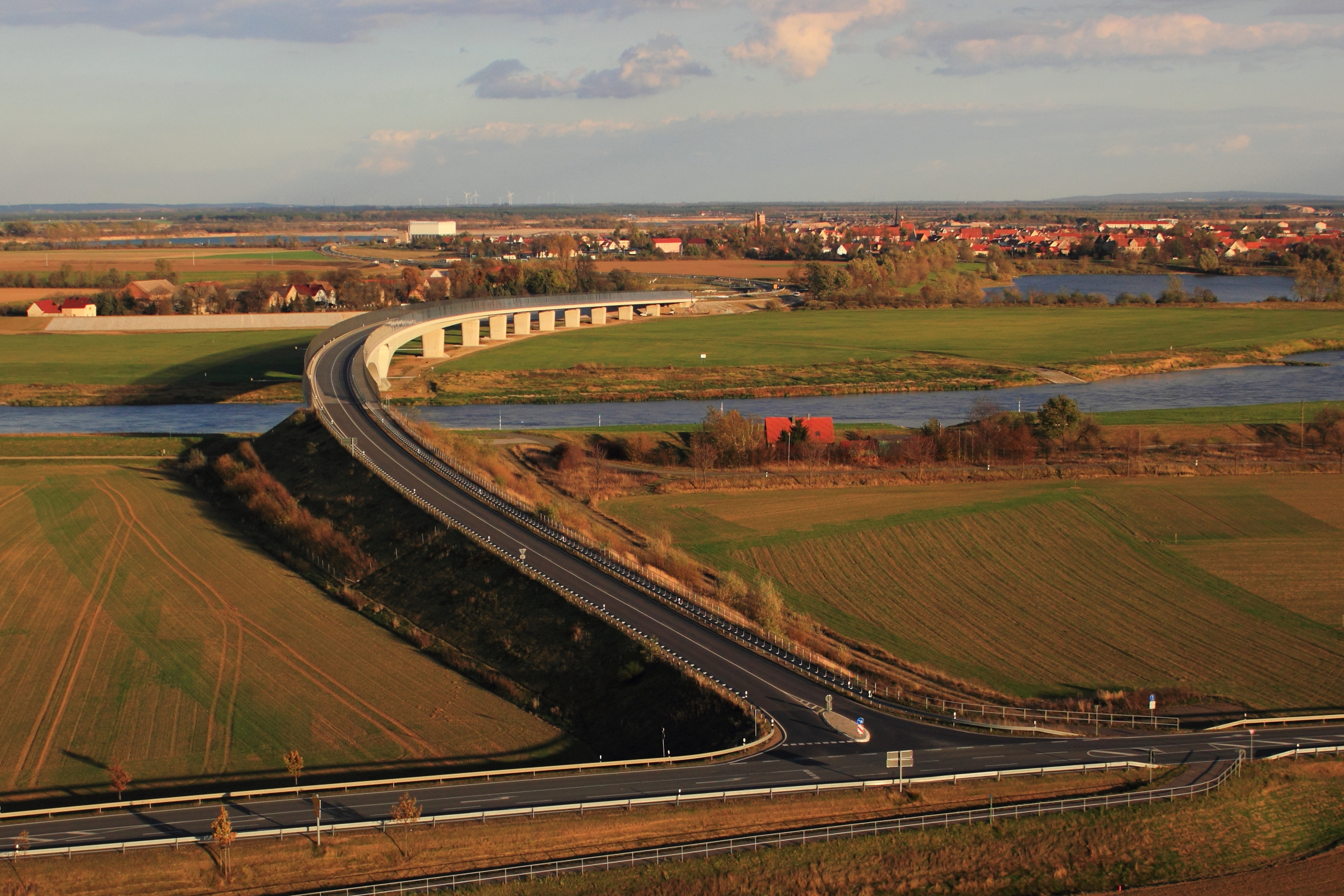 KAP (Kite Aerial Photography)